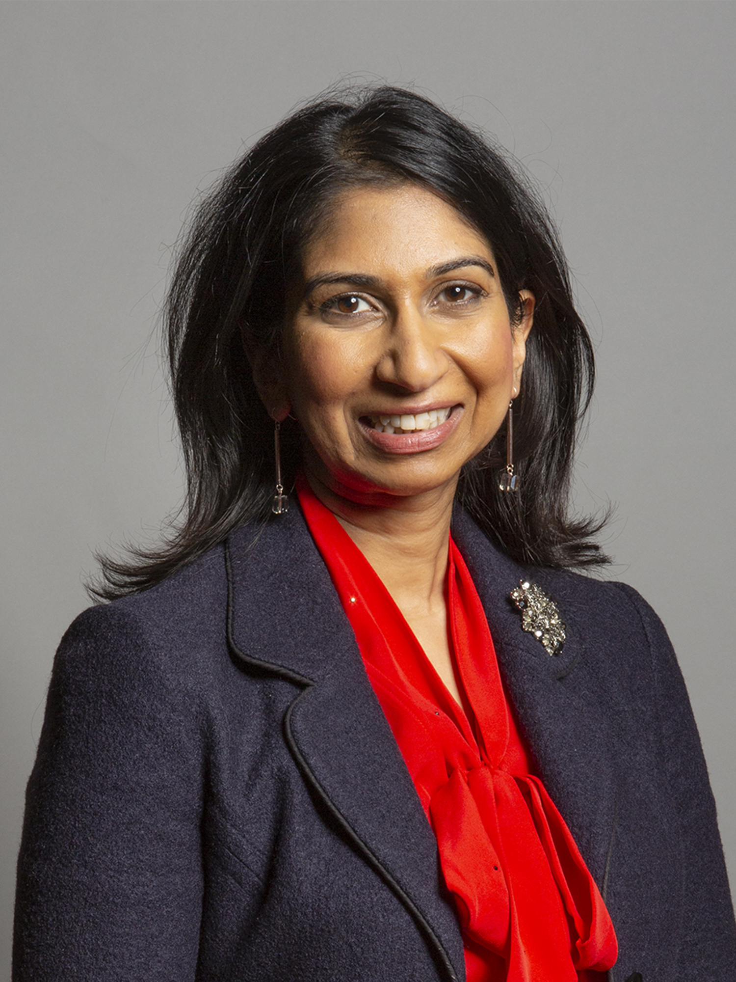 Official portrait of Suella Braverman MP 3×4 portrait of Suella Braverman